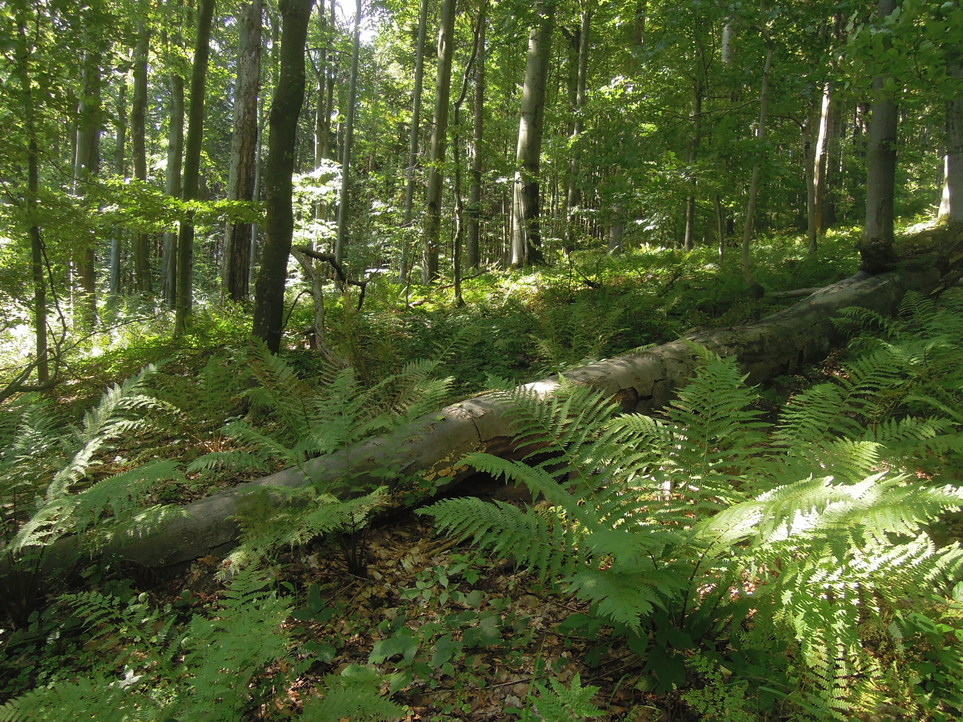 Nature reserve Kutaný near Halenkov, Vsetín District, Zlín Region, Czech Republic